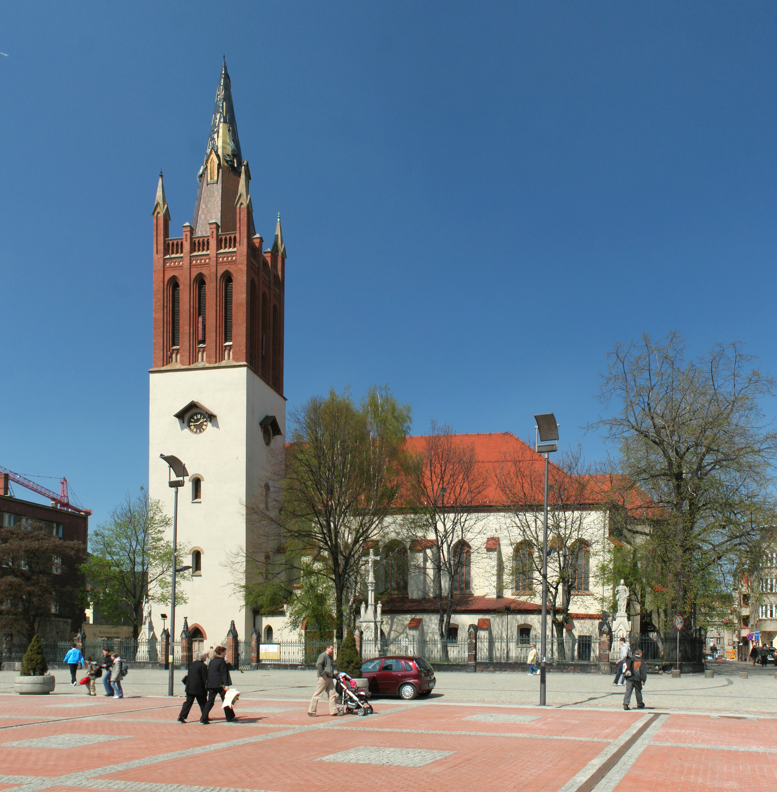 Church of St. Mary in Bytom. This image was created with Hugin.